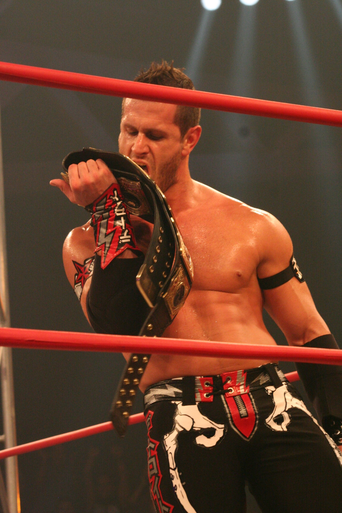 Professional wrestler Alex Shelley licking the TNA World Tag Team Championship belt during a taping of TNA Impact!